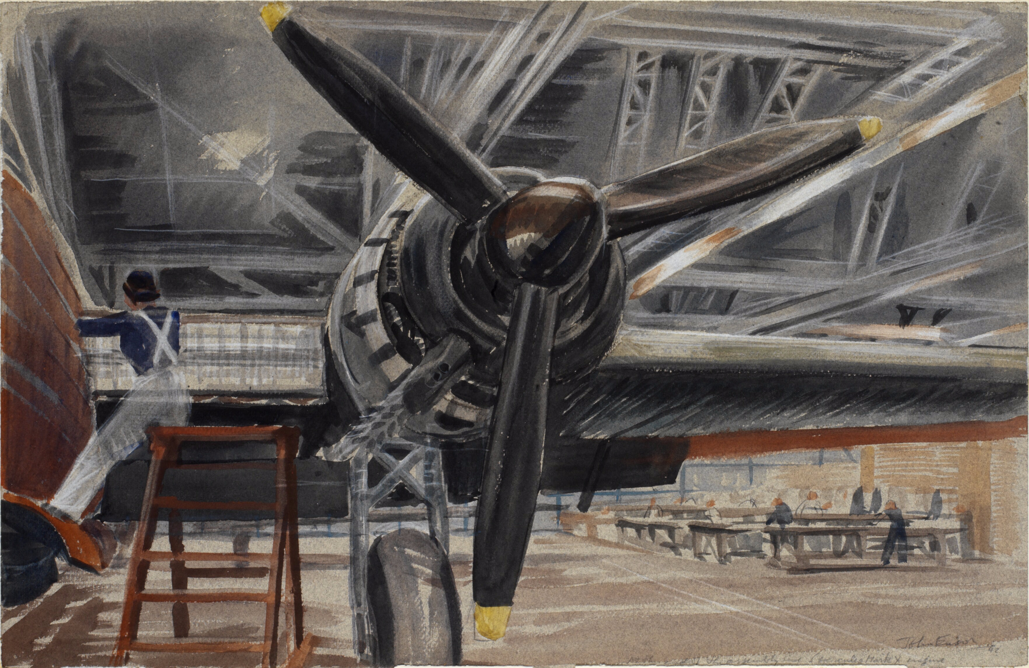 A women working on the side of a Wellington bomber inside a hanger; other workers visable at tables in the background.